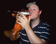 This is a photo taken by the original author of the boot of beer page. It is for the use of providing a visual example of the act of drinking beer form a glass boot. this photo is not copywritten and if free to be used. if there are any further questions please contact the author at